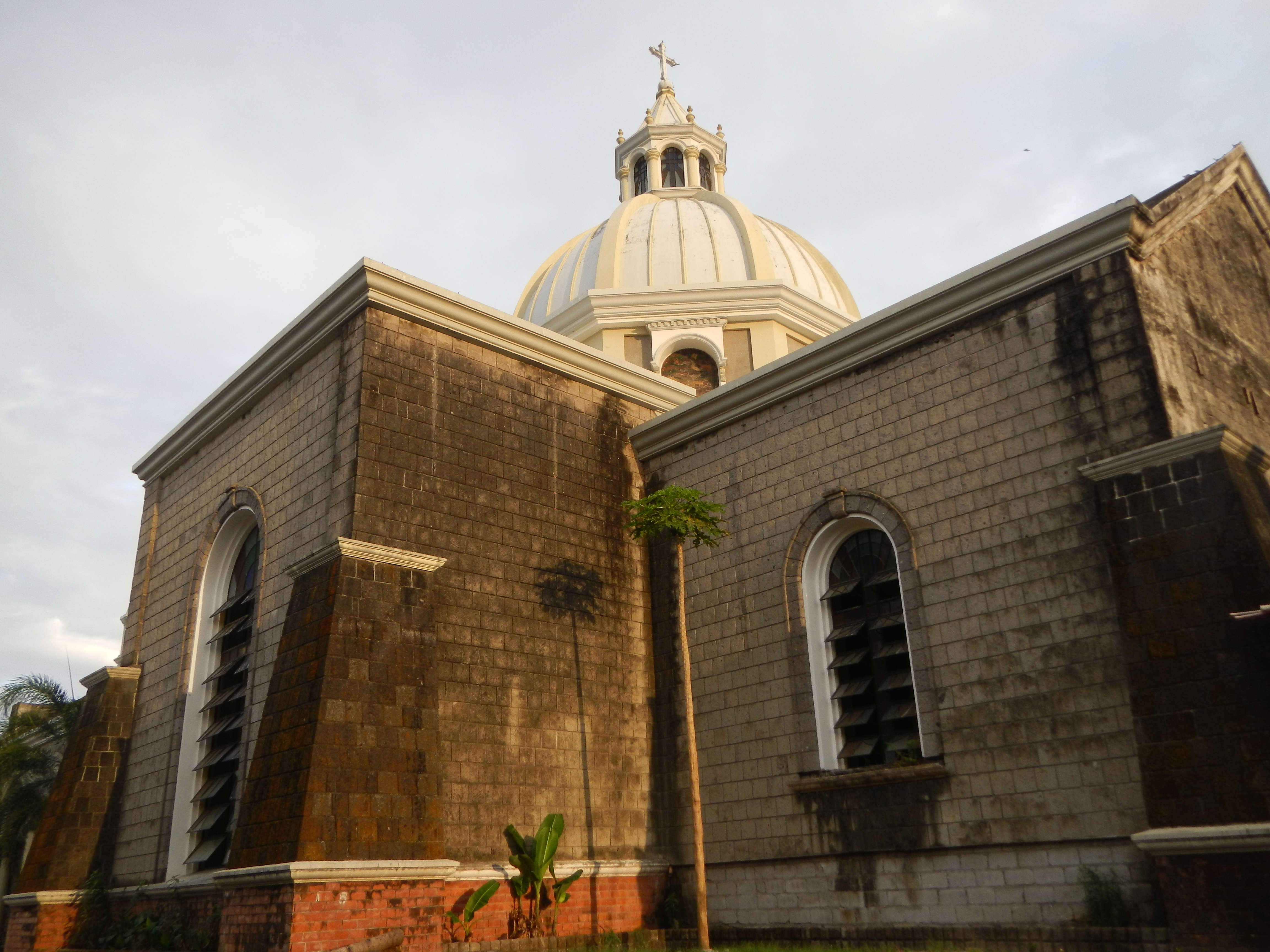 Parish of Saint Peter of Verona, Roman Catholic Diocese of Balanga, [1] May 3, Vicariate of Saint Peter Verona, Parish Priest Msgr. Mario Perez, Msgr. Antonio Dimaual, attached. [2]Saint Peter of Verona O.P. (1206 – April 6, 1252). Roman Catholic Diocese of Balanga[3] -Vicariate of Our Lady, Mirror of Justice [4][5]Diocese of Balanga(Dioecesis Balangensis) Suffragan of San Fernando, Pampanga Created: March 17, 1975. Canonically Erected: November 7, 1975. Comprises the whole civil province of Bataan. Titular: St. Joseph, Husband of Mary, April 28. Bishop Most Reverend Ruperto Cruz Santos, DD[6][7]Parish Priest : Fr. Josue V. Enero Parochial Vicar: Fr. Edgardo S. Sigua[8] Hermosa, 2110 Bataan[9]